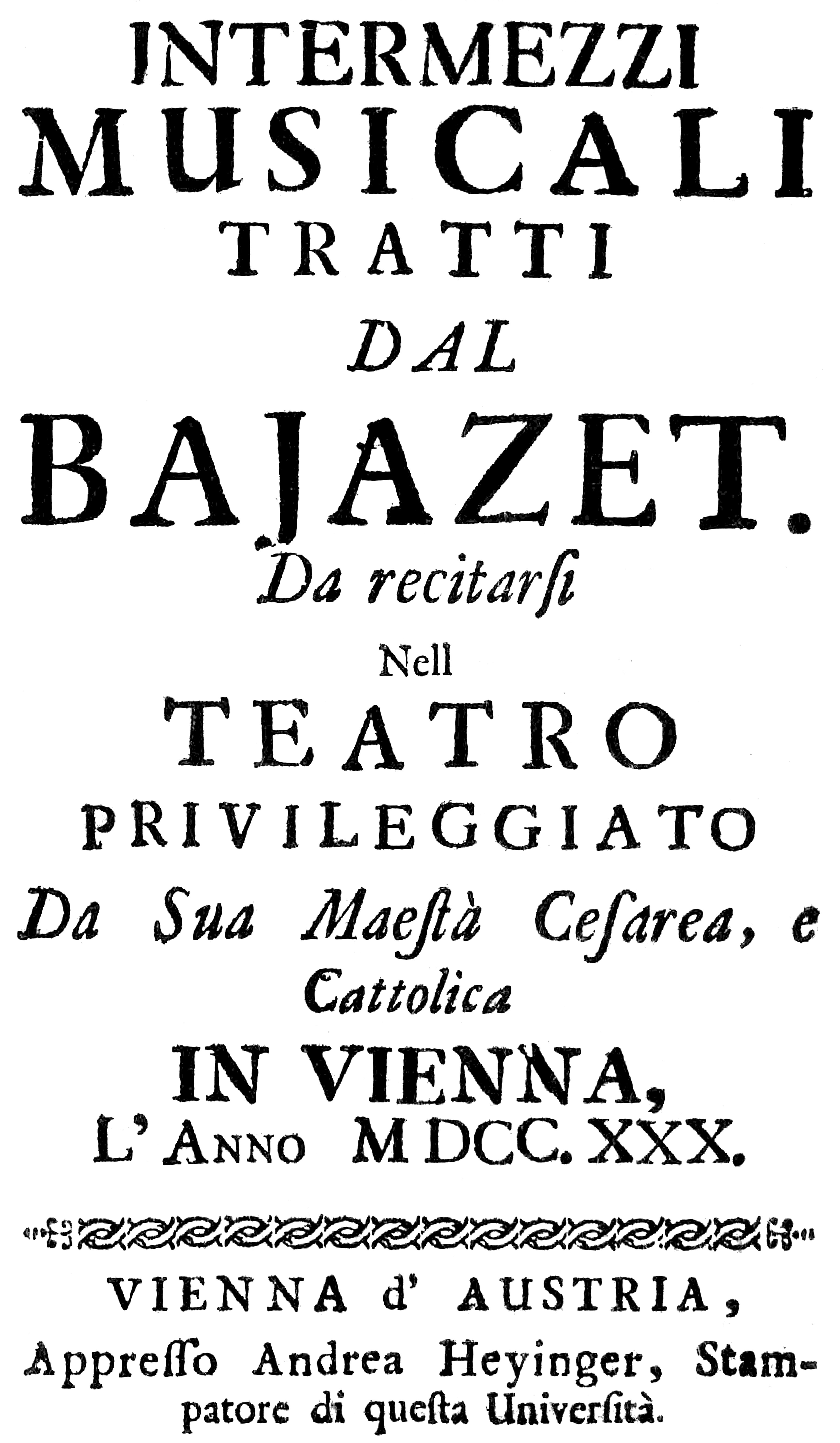 Anonymous - Intermezzi musicali tratti dal Bajazet - title page of the libretto - Vienna 1730